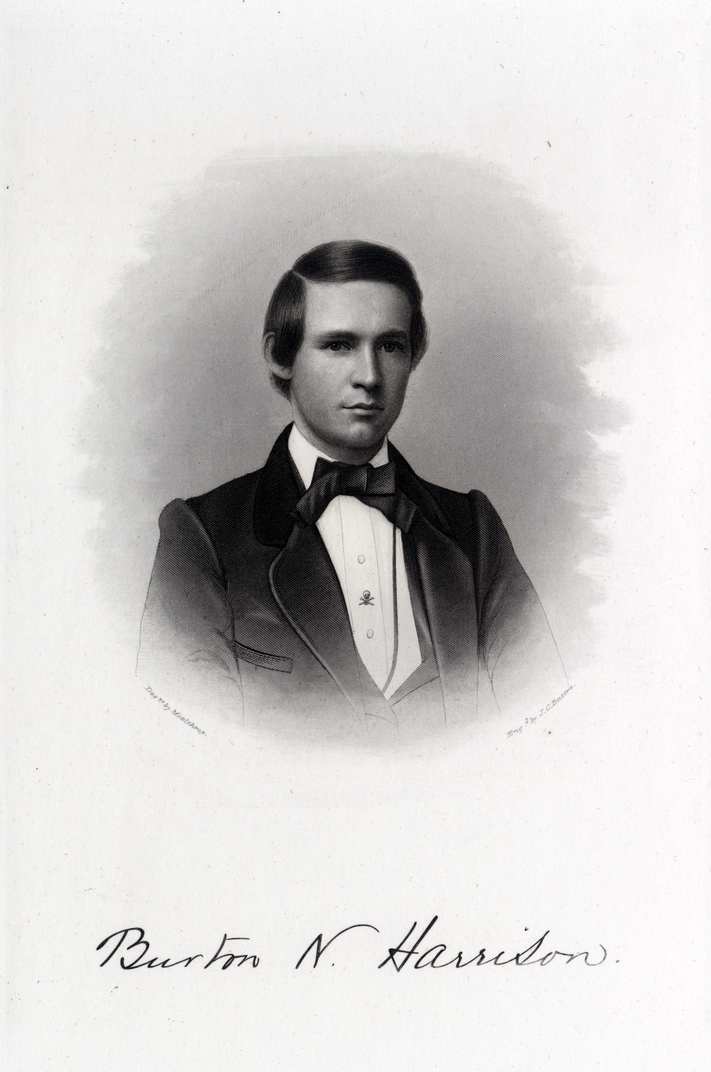 Etching of Burton Norvell Harrison, Yale College Class of 1859.